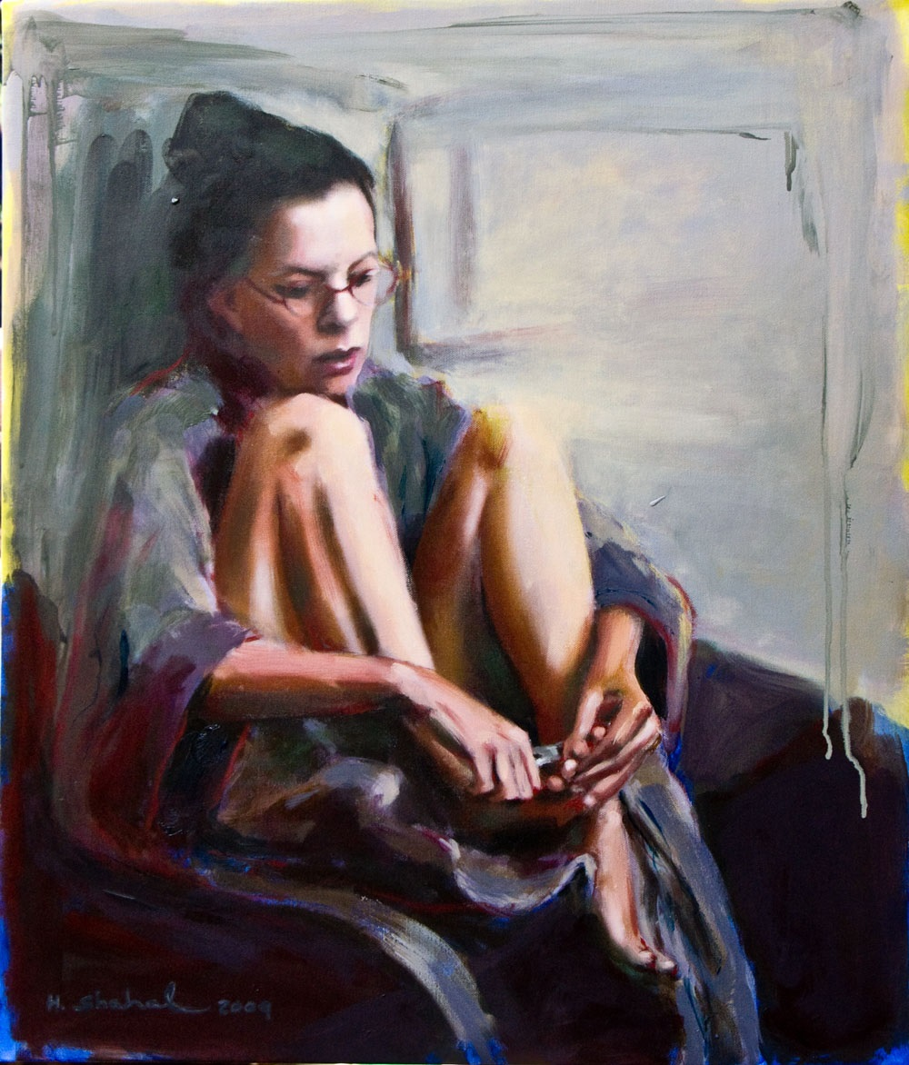 Pedicure by Hagit Shahal